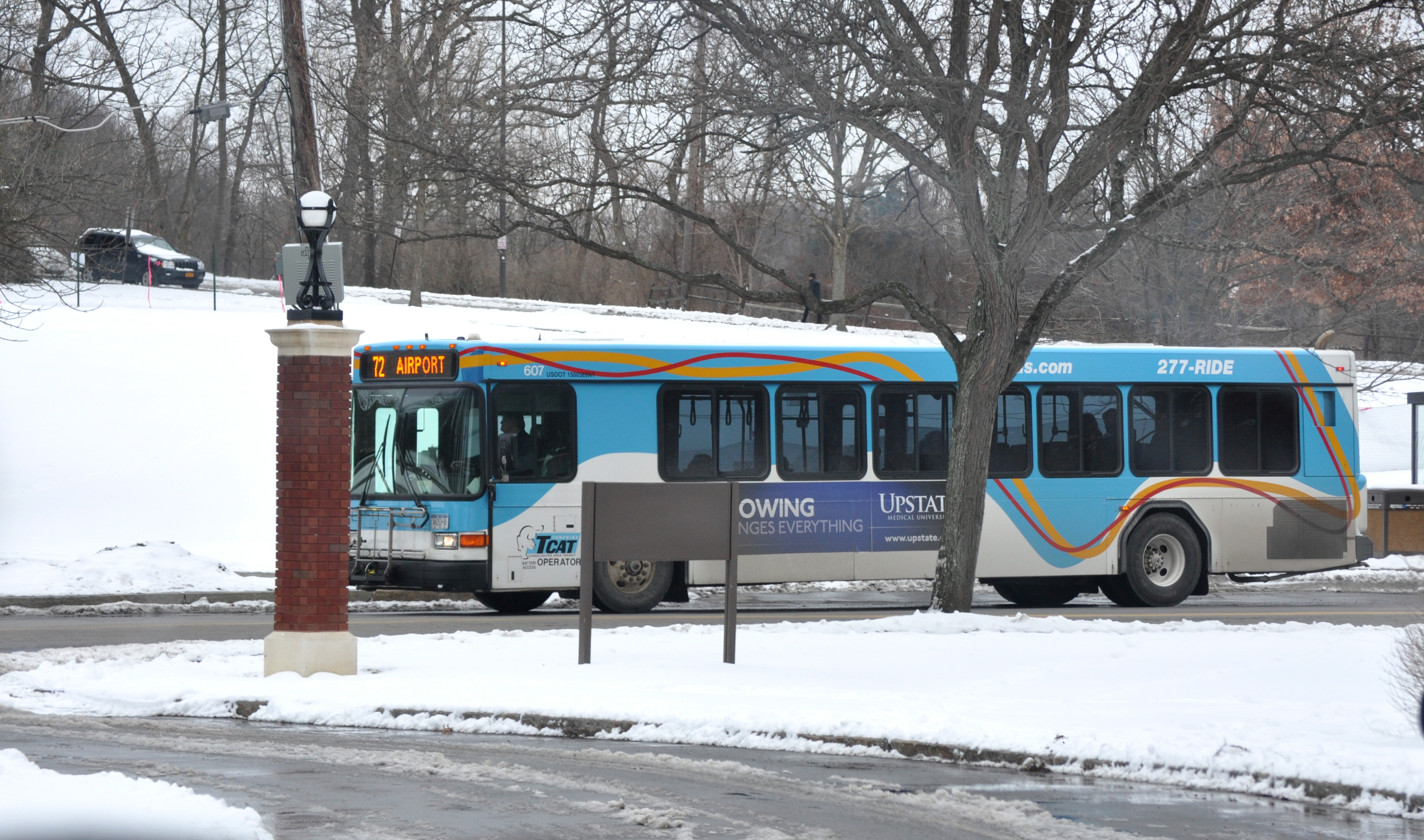 Tompkins Consolidated Area Transit bus